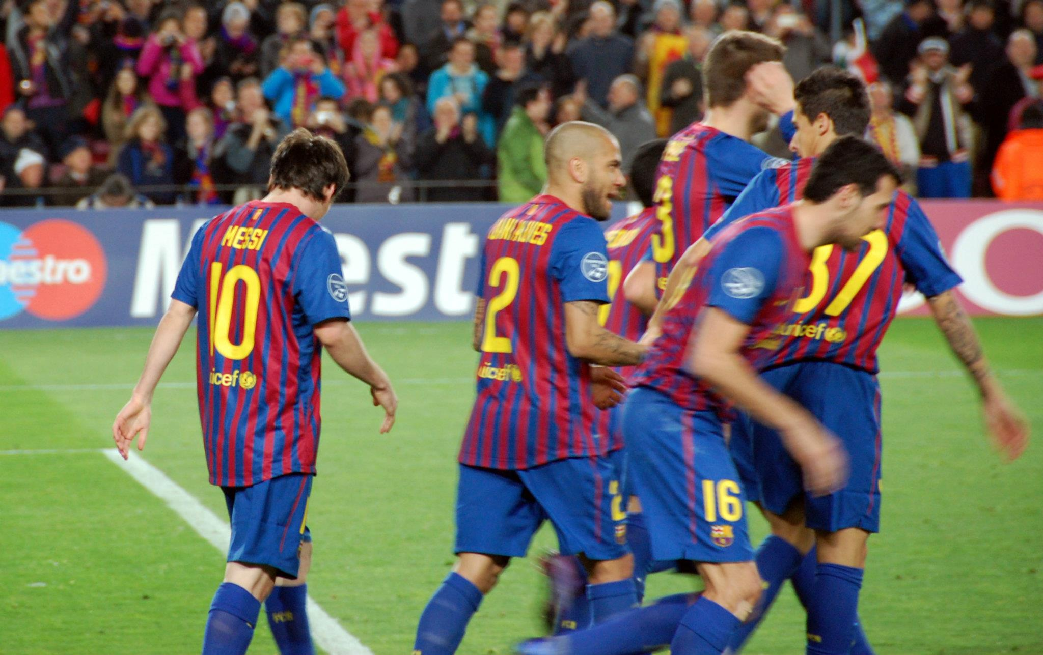 FC Barcelona - Bayer 04 Leverkusen, 1/8 Final UEFA Champions League, Season 2011/2012